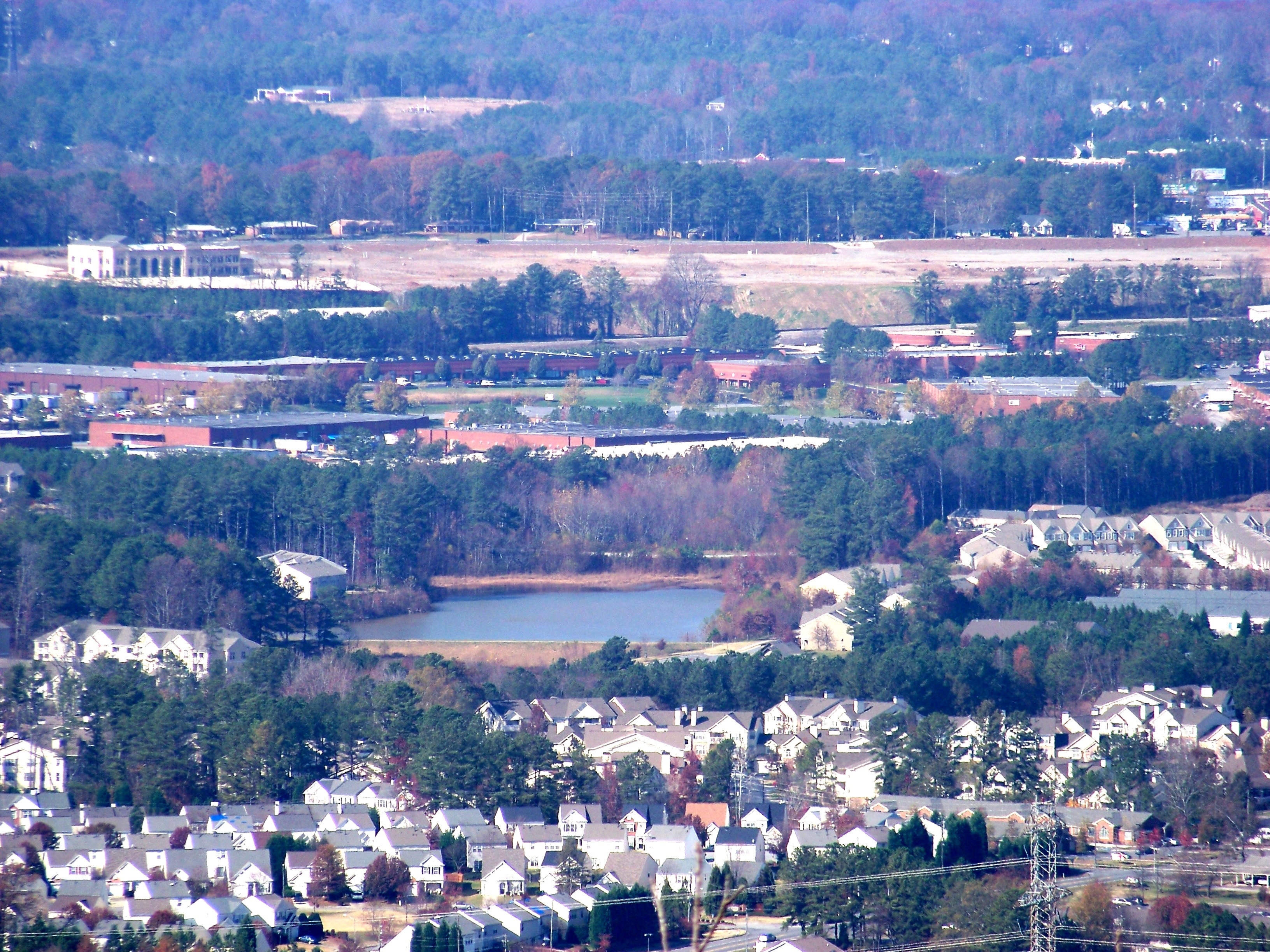 Cobb County, GA, USA